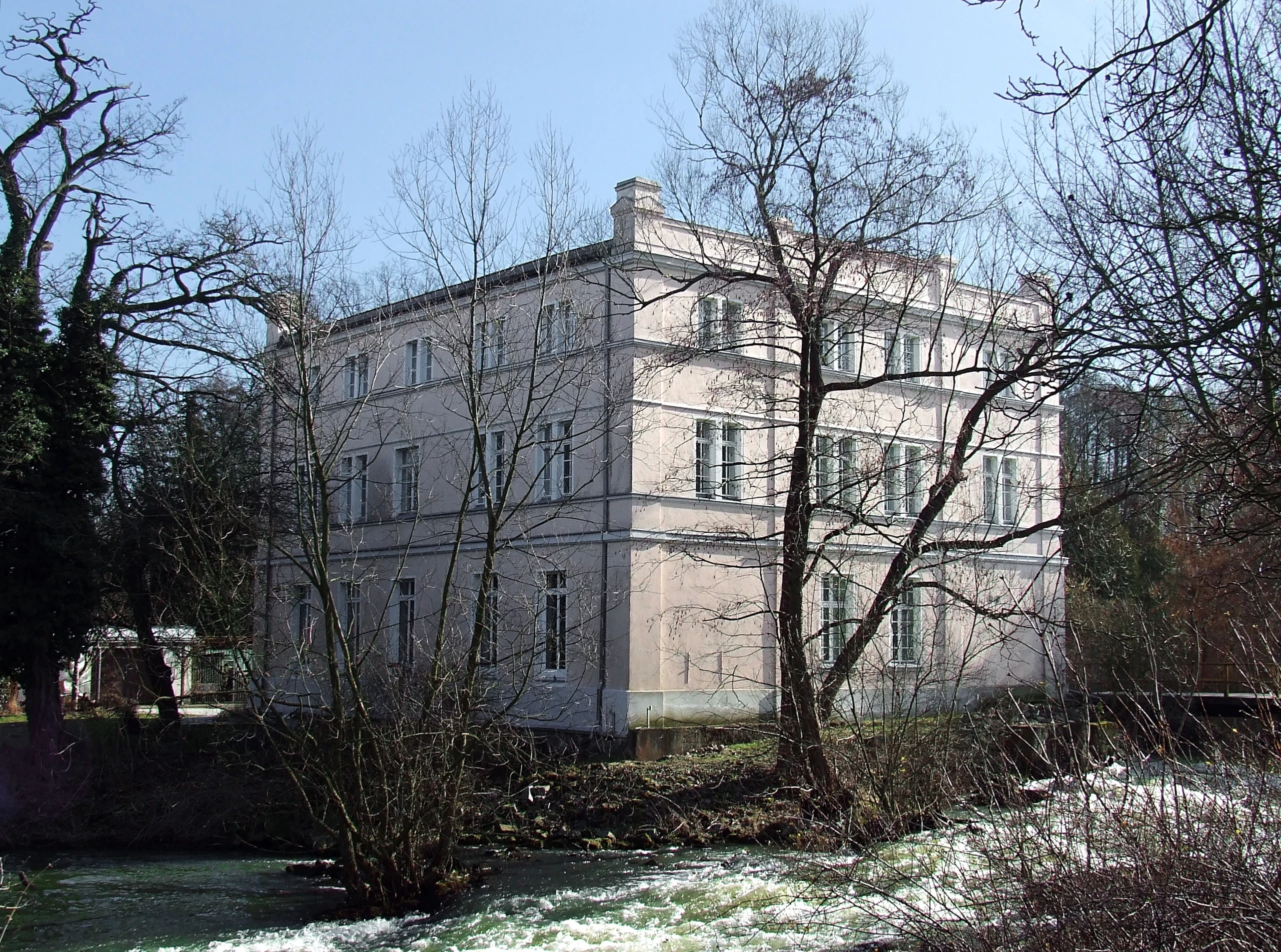 Kützeburger Mühle was a grain watermill demolished in 1975. Since then, the remaining structures were incorporated into a stable with on-site holiday homes, restaurant and riding academy. The area is located at the E10 European long distance path along with several cycling routes, and forms the distinct settlement (Wohnplatz) with the same name, which in turn is administered by Gallinchen, a district of Cottbus. Part of the paved road to Gallinchen proper is also called Kutzeburger Mühle.Shown is the building Kutzeburger Mühle 2 from the northeast.